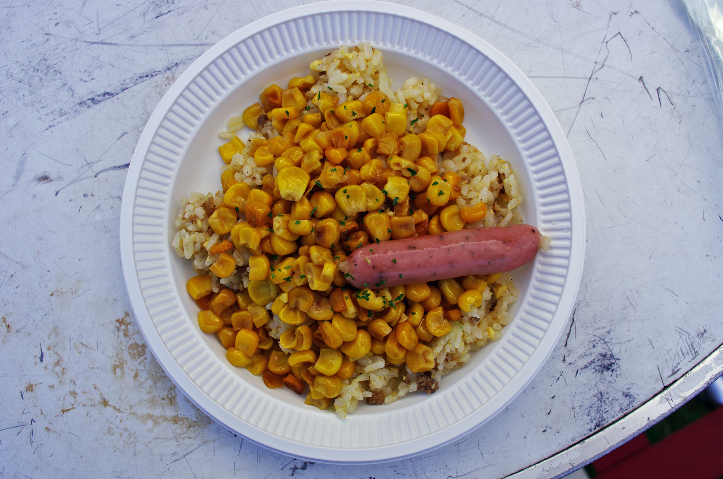 Tokachi Memuro Corn Fried Rice